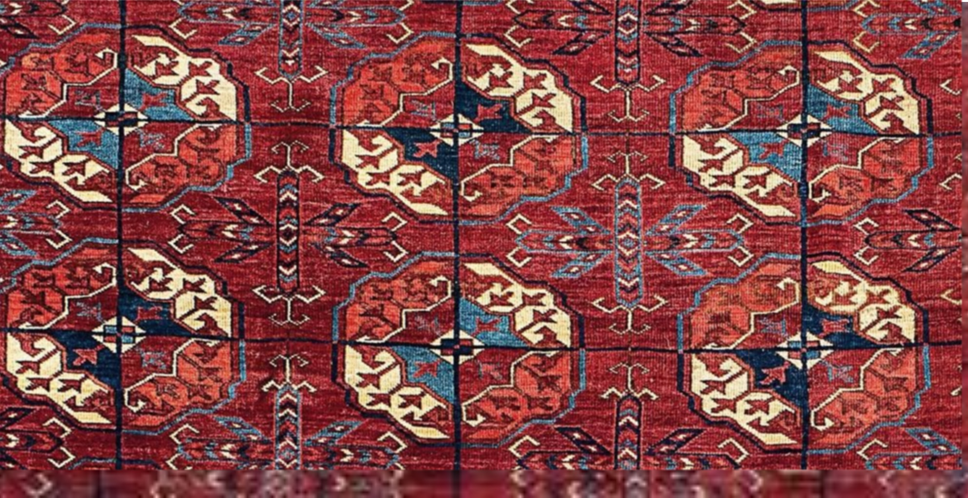 Detail of a Tekke Khali.. See Auctioneer website link and see File:Early Tekke Turkmen hali (main carpet).jpg